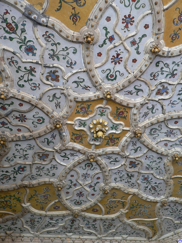 Museum of Applied Arts. Open lobby ceiling is covered with Zsolnay ceramics.